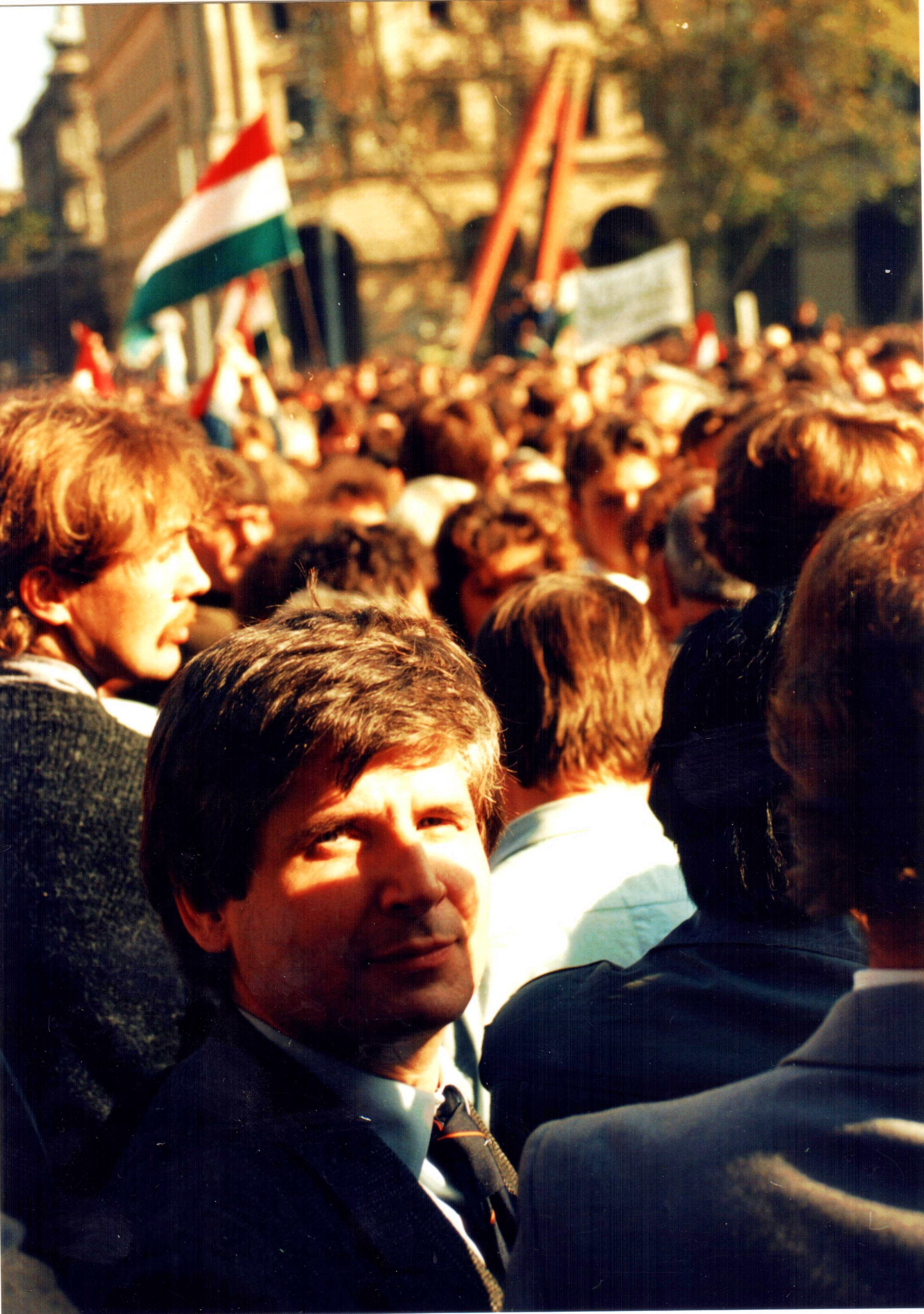 Taken on the 23rd of October, 1989. Kossuth tér, Budapest, Hungary, Central Europe. Proclamation of the Republic. Iconic moment of the end of communism in Hungary.